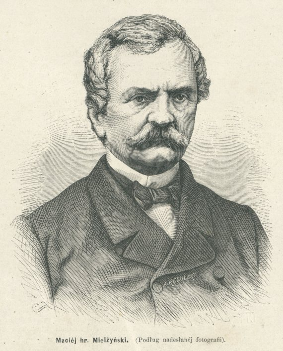 Maciej Mielżyński was a polish politician and a social and cultural activist